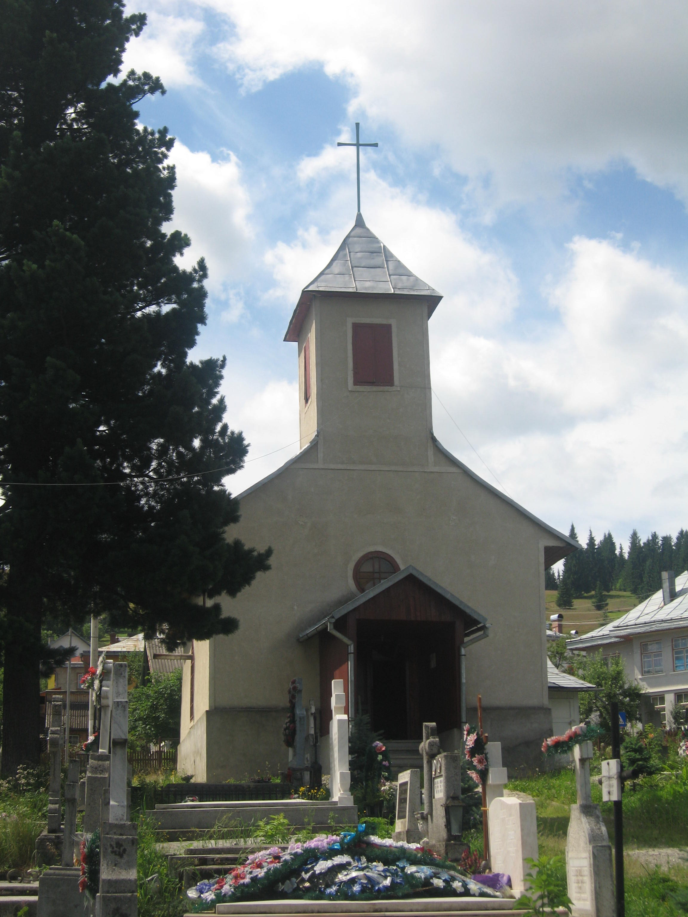 The Roman-Catholic Church in Vatra Dornei, Romania